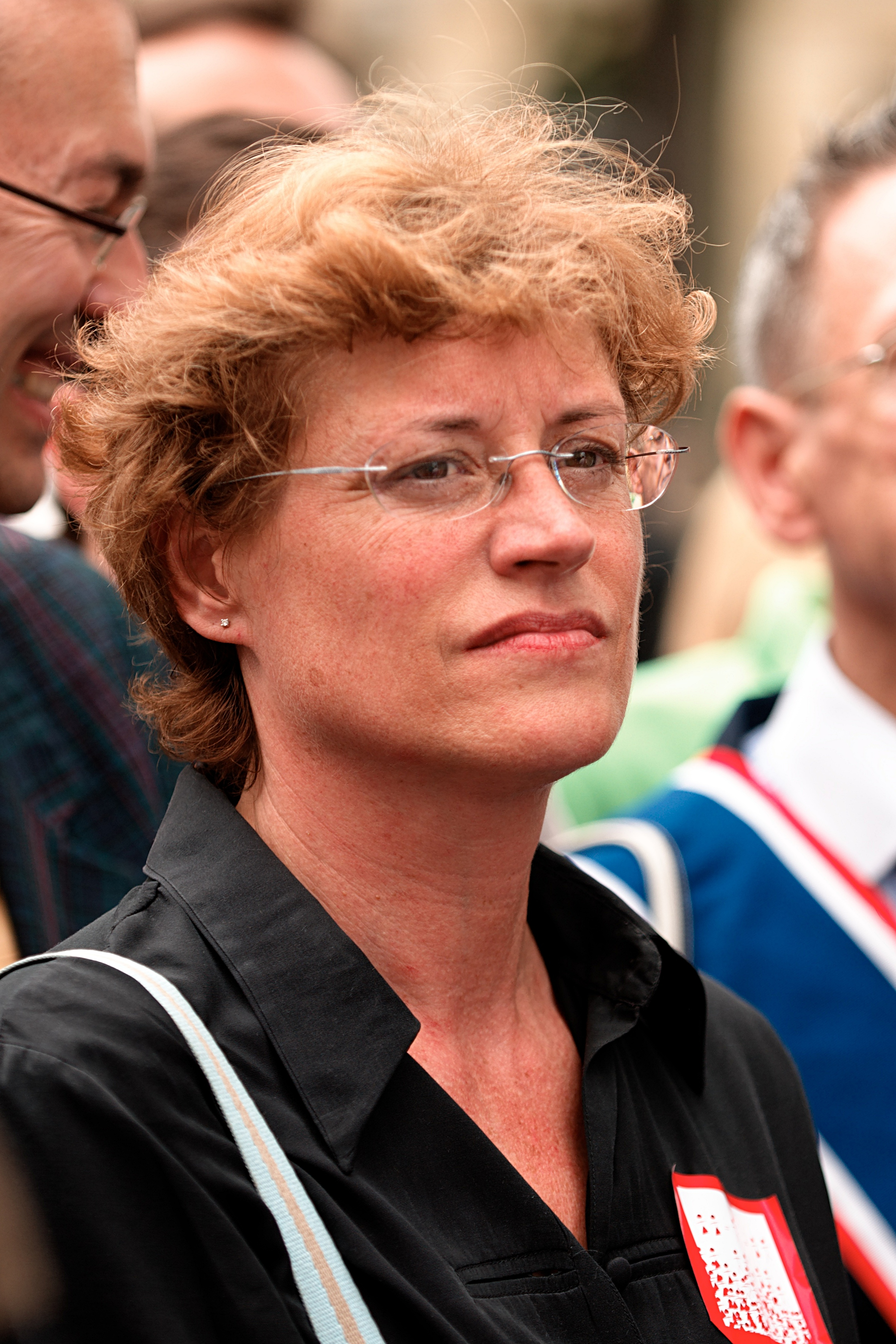 Annick Lepetit at the 2008 Gay Pride in Paris.